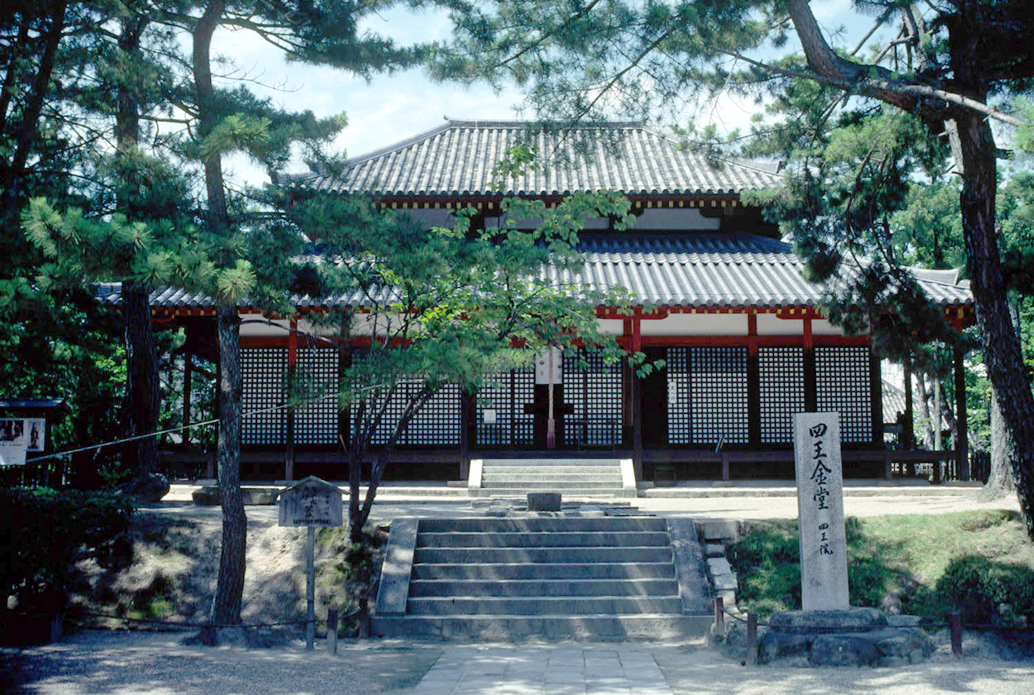 Saidaiji, an ancient Buddhist temple in Nara, Nara Prefecture, Japan. I took this photo and contribute my rights in the file to the public domain; individuals and organizations retain rights to images in it. I took this photo and contribute my rights in the file to the public domain; individuals and organizations retain rights to images in it. Same source slide as Image:Saidaiji.jpg but adjusted in lightness. A user on the Japanese Wikipedia captioned this photo "西大寺（四王堂）"